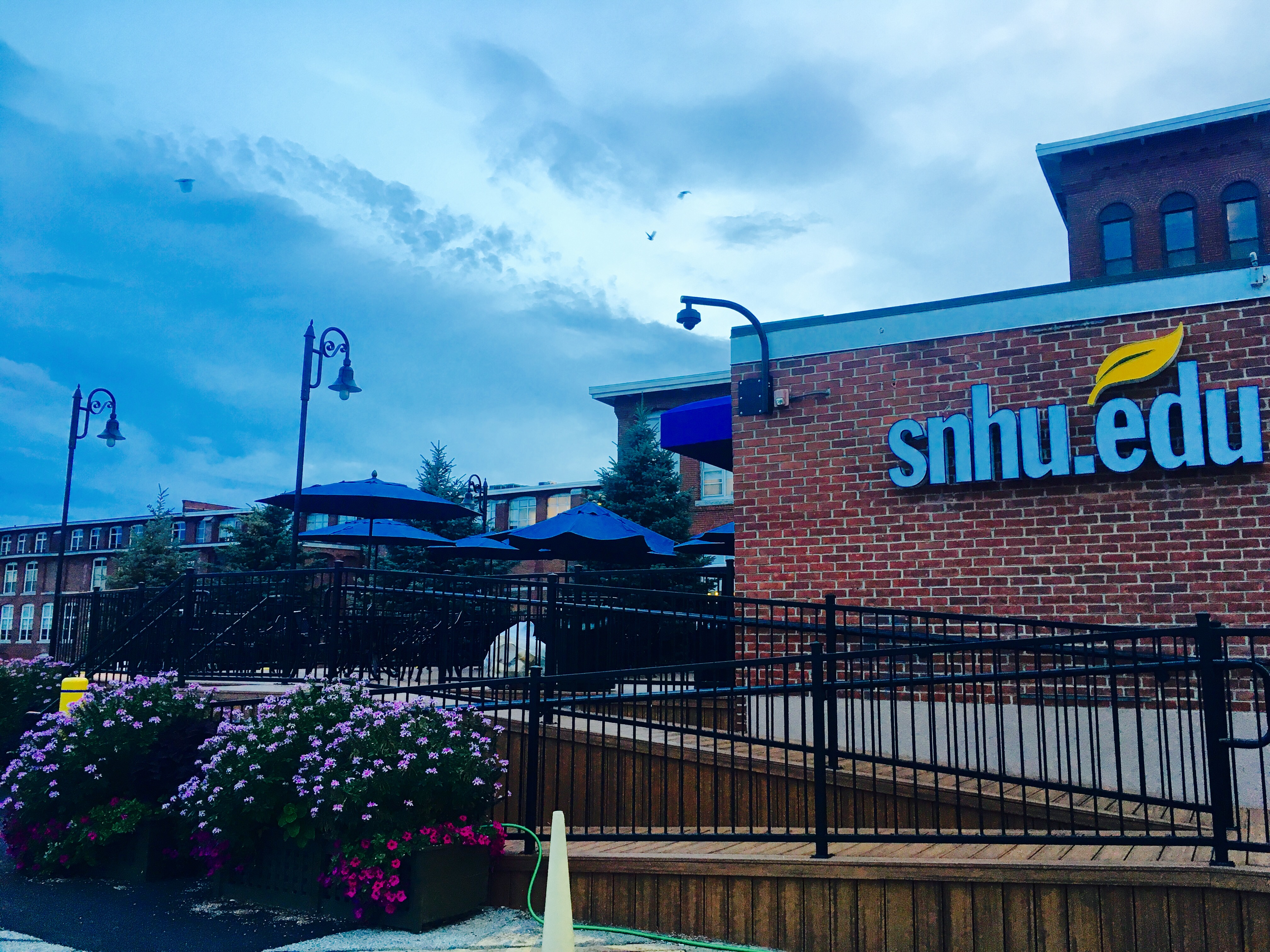 Entrance to SNHU College of Online & Continuing Education in the Manchester, New Hampshire Millyards